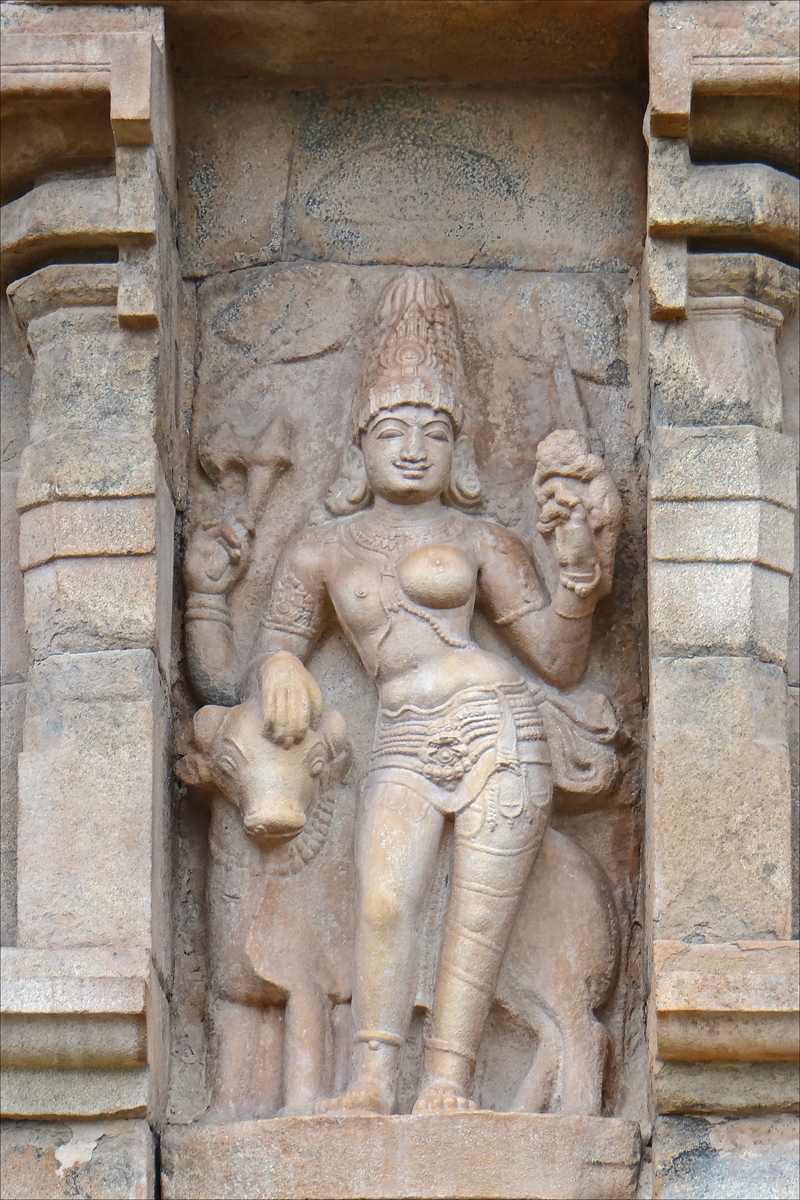 Bas Relief in stone showing Shiva in an androgynous form; alternatively it is a fusion of Shiva and his wife Parvati, with Nandi bull. Gangaikonda Cholapuram Pragatishwara temple. Gangaikonda Cholapuram (Tamil: கங்கைகொண்ட சோழபுரம்) was the capital of the Cholas by Rajendra Chola I, the son and successor of Rajaraja Chola, the great Chola who conquered a large area in South India, Sri Lanka, Bangladesh, Sumatra, Kadaram (Kedah in Malaysia) at the beginning of the 11th century A.D. As the capital of the Cholas from about 1025 A.D. for about 250 years, the city controlled the affairs of entire southern India, from the Tungabhadra river in the north Karnataka to Ceylon in the south and other south east Asian countries. La forme androgyne de Shiva appelée Ardhanarishwara ou Ardhanari, Le temple de Pragatishwara (Sri Pragadheswarar) de Gangaikondacholapuram a été inscrit en 2004 par l'UNESCO sur la liste du patrimoine mondial dans le groupe des « Grands temples vivants Chola » pour son exceptionnelle qualité architecturale et l'abondance de ses sculptures Gangaikondacholapuram est une ancienne capitale de l'empire Chola construite par le roi Rajendra Ier vers 1025 Les grands temples Chola de l'Inde du Sud, dont fait partie le temple de Pragatishwara (appelé parfois Rajendreshvara) constituent des témoignages majeurs de l'évolution de la civilisation tamoule. Leur forme architecturale est caractéristique du style dravidien classique avec une tour pyramidale et un mandapa. Les Chola ont été la deuxième grande dynastie historique du Tamil Nadu, le pays tamoul, dont l'influence fut considérable sur l'ensemble de l'Asie du Sud-Est. Article de Wikipedia sur le temple